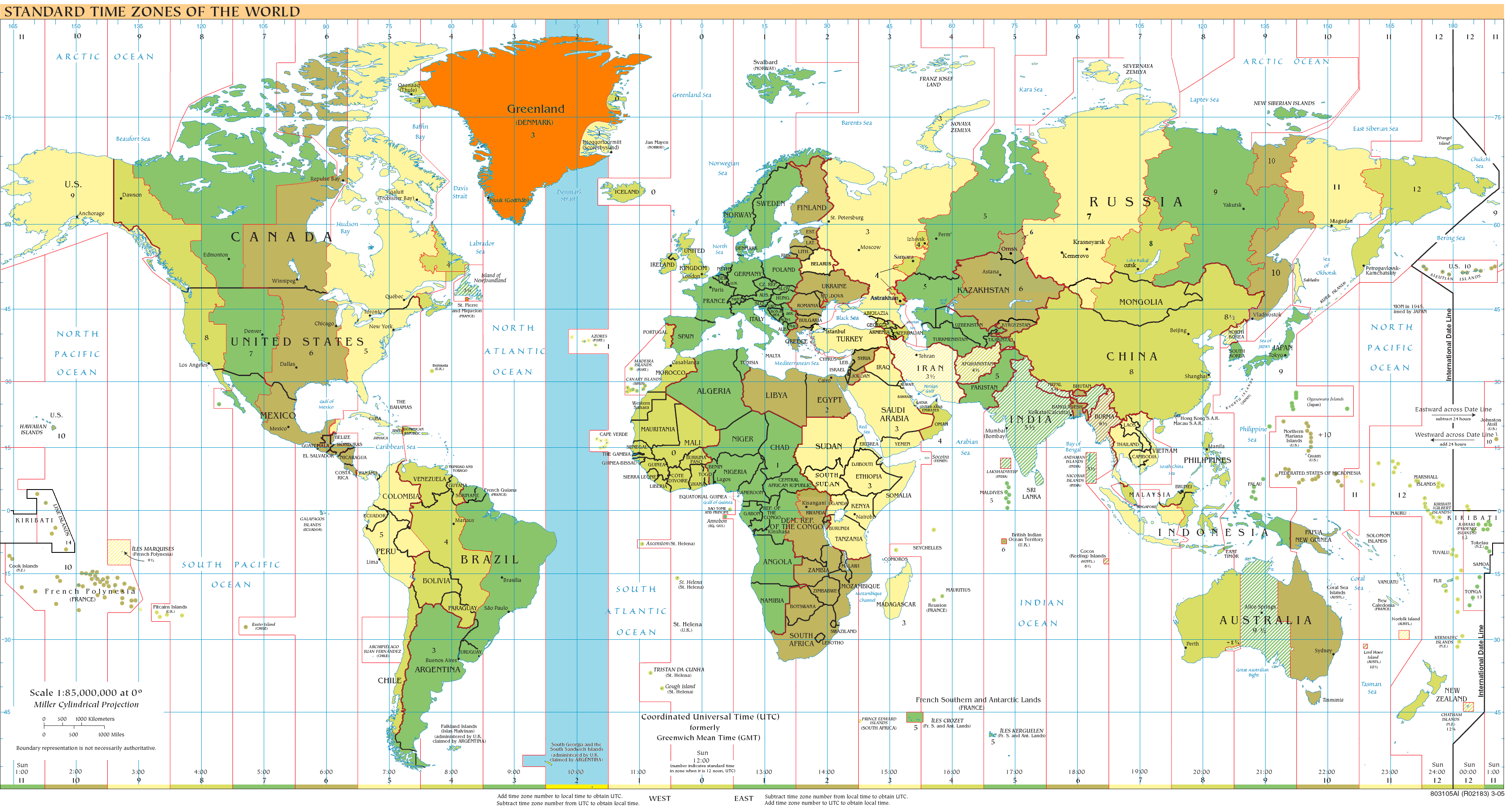 Copy of Timezones2008.png, highlighting UTC-2 Dark Blue - UTC-2 during Northern Winter / Southern Summer Orange - UTC-2 during Northern Summer / Southern Winter Yellow - UTC-2 all year round Light Blue - UTC-2 sea areas